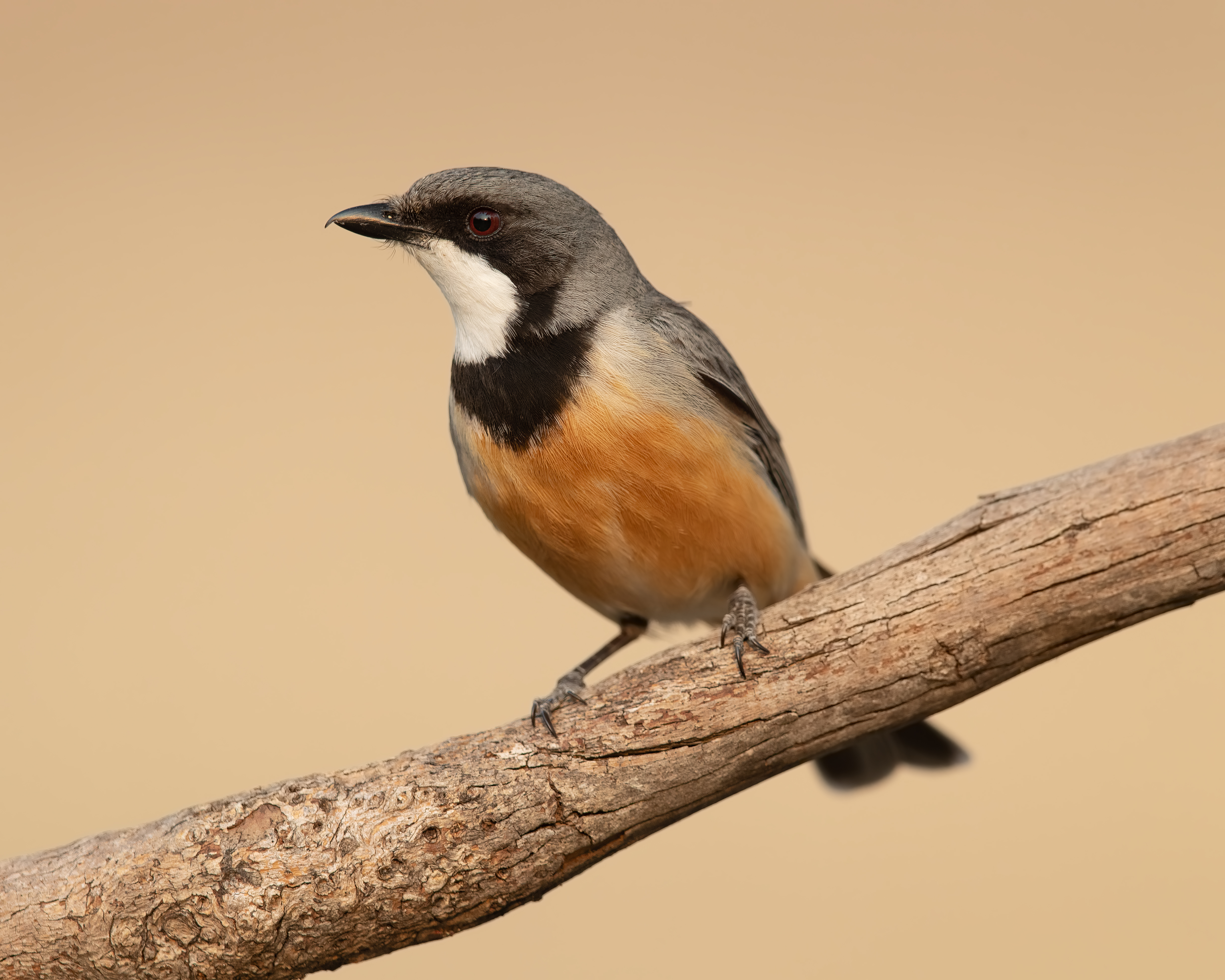 Rufous Whistler (Pachycephala rufiventris) male, Glen Davis, Lithgow, New South Wales, Australia